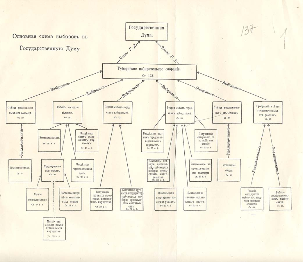 Основная схема выборов в Государственную думу. Нач. ХХ в.